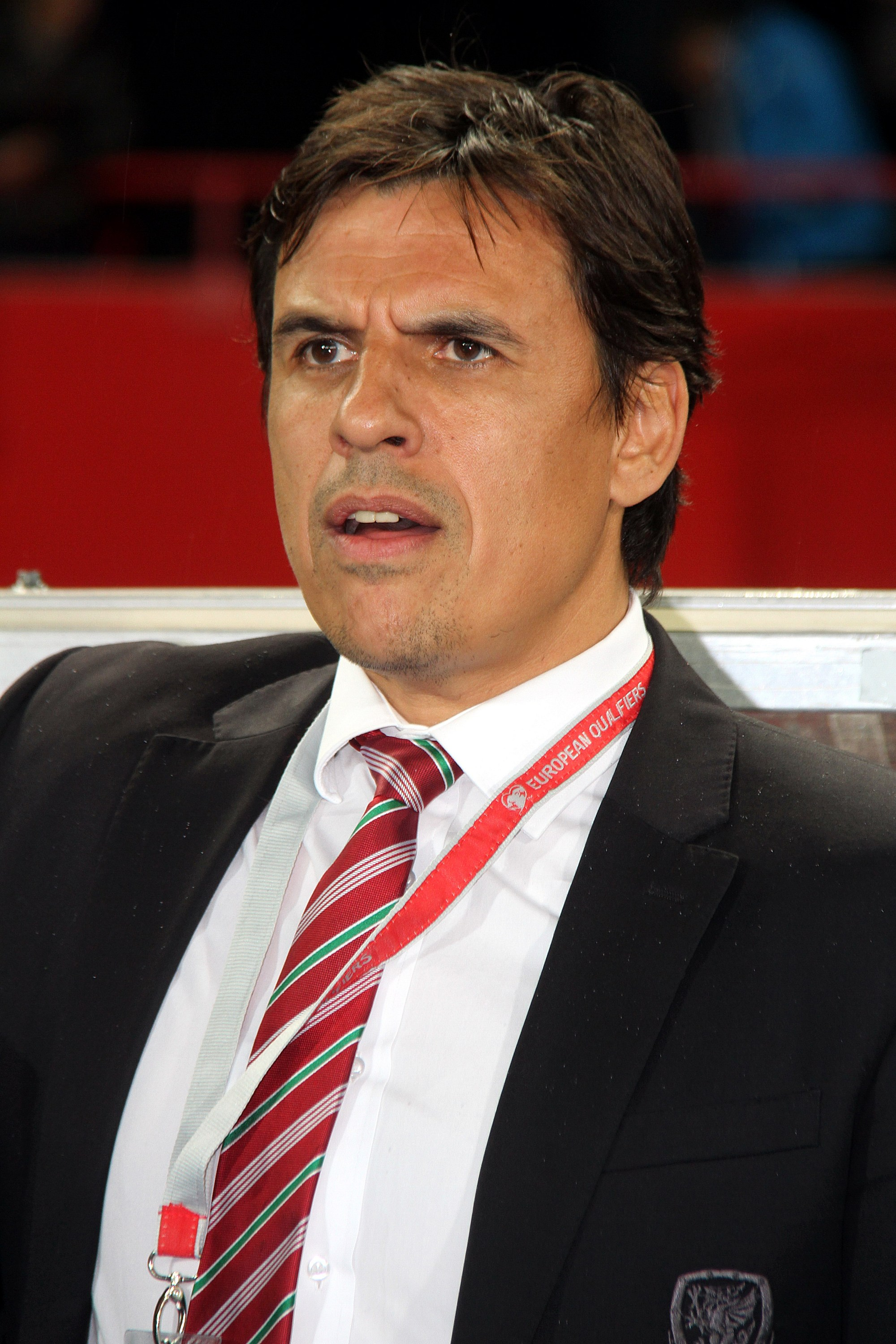 2018 FIFA World Cup qualification – UEFA Group D) – Austria (red shirts) vs. Wales (white shirts) 2-2 (1-2) – 2016-10-06 in Vienna, Ernst-Happel-Stadion – The photo shows teamchef Chris Coleman (Wales).